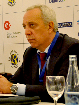 Una de les taules de la XVII Trobada d'Economia de S'Agaró es va centrar en ‘La marxa de les empreses i la superació de la crisi’ i va comptar amb la participació del director de l’Institut de Macroeconomia i Finances de la Universitat CJC, David Taguas; el cofundador i director general de Privalia, Lucas Carné; el president de Vueling, Josep Piqué, i la consellera delegada de Companyia General Càrnia, Chelo Tonijuan